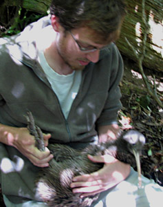 Kiwi recovery at Mt Bruce Wildlife Center (2006)